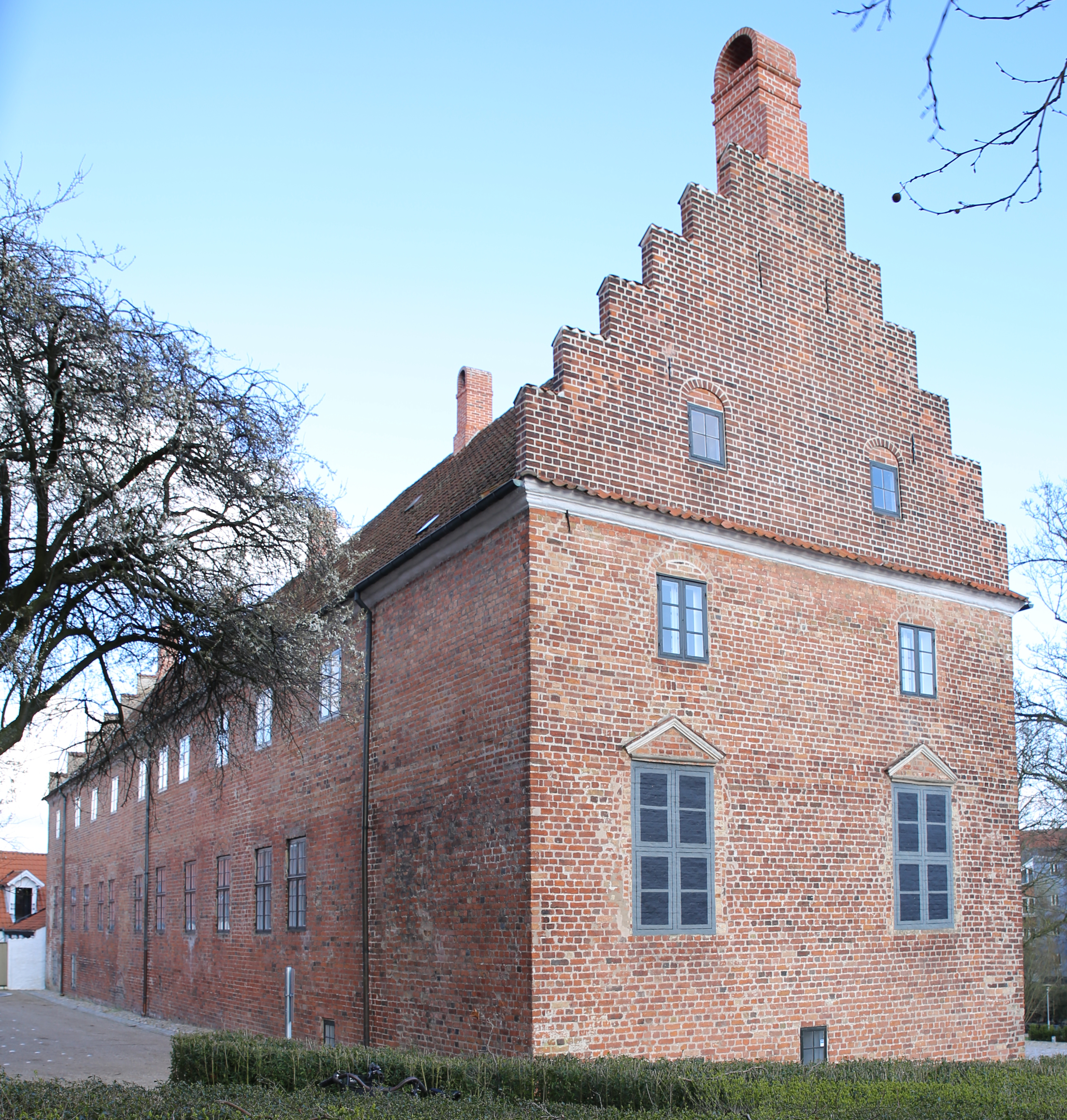 Odense Adelige Jomfrukloster (Odense Convent of Noble Maidens); rear side and an end wall with two painted-on windows.